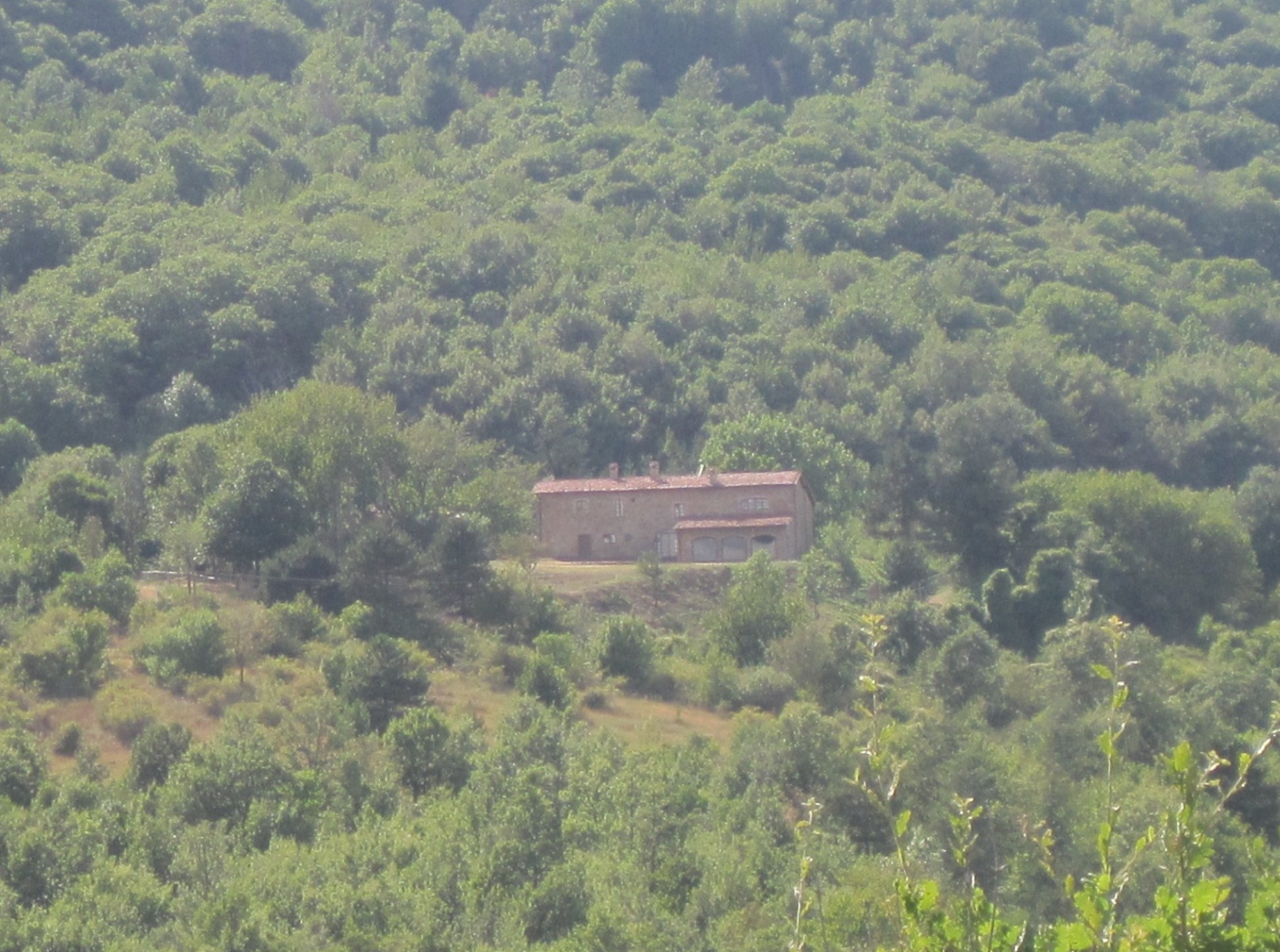 Roveta Farm, Salaiola, Arcidosso